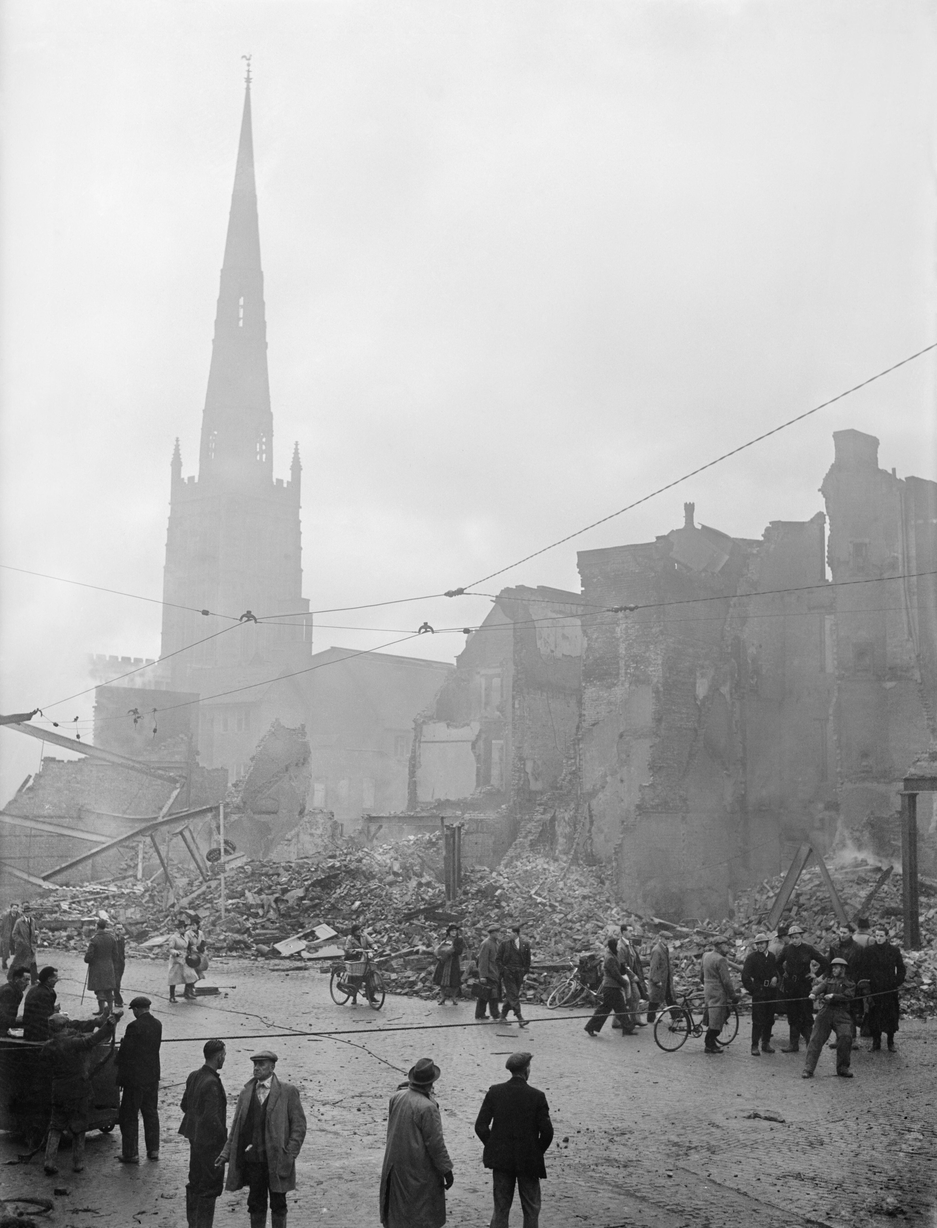 A street in Coventry, England, after the Coventry Blitz of 14–15 November 1940. In the background are the tower and spire of Holy Trinity parish church.